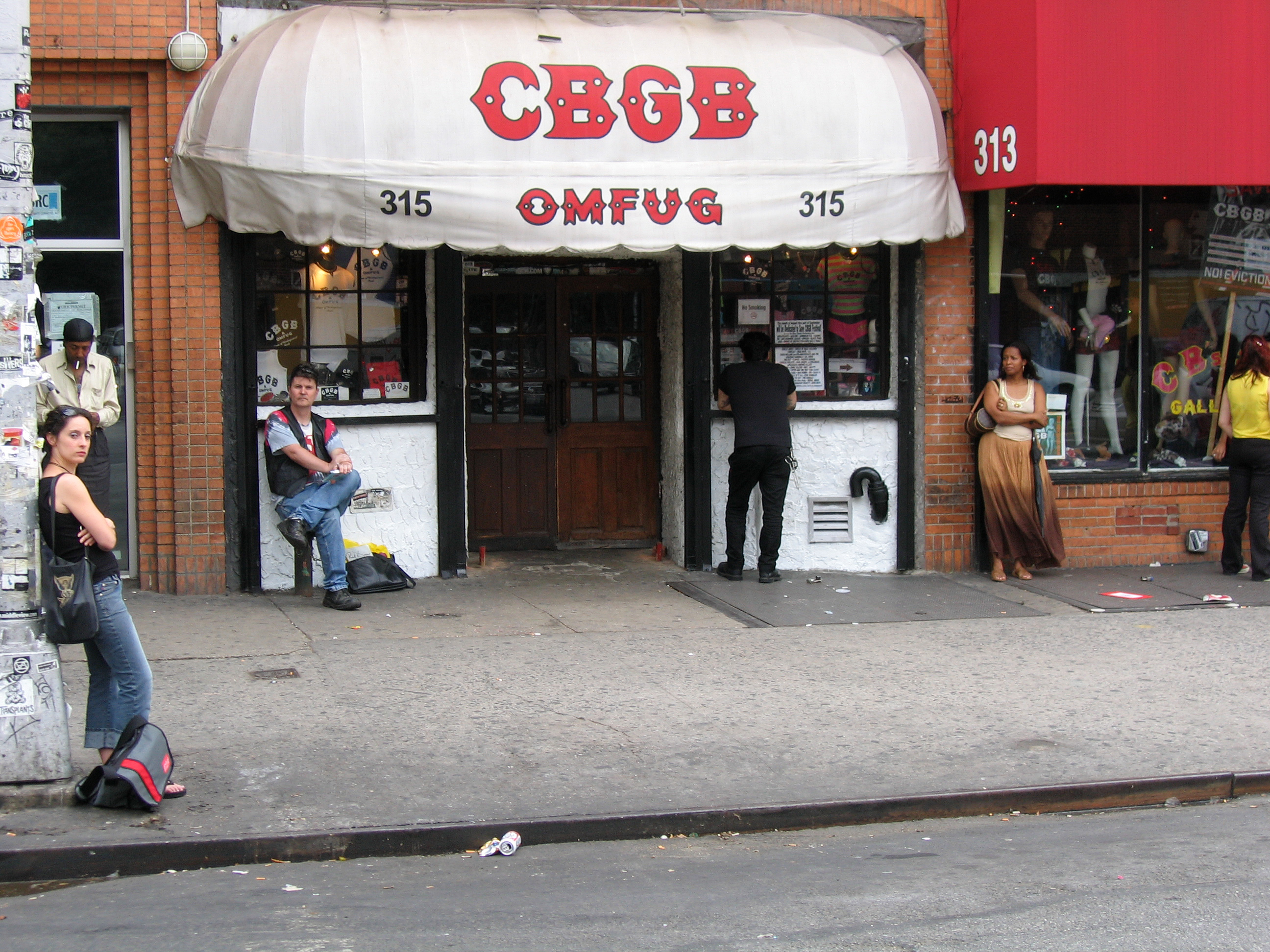 Legendary punk rock club where bands as Television, Blondie, Patti Smith, Talking Heads and Ramones start them music career.